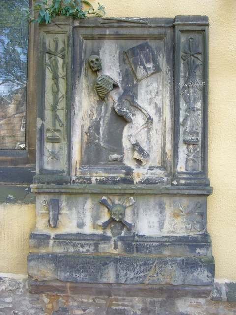 Tombstone, bearing a 'memento mori' motif, on the wall of Greyfriars Kirk. It marks the grave of James Borthwick who joined the Incorporation of Surgeons in 1645, became its Deacon (president) and was appointed Britain's first professor of anatomy in 1650. He died in 1676.